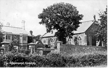 A postcard of The Agapemone, Spaxton, Somerset dating from 1907. Published by John Whitby and Sons, Bridgwater. Written by ? to L.Lott, 56 Alfred Street, Burnham. Postmarked: Spaxton.